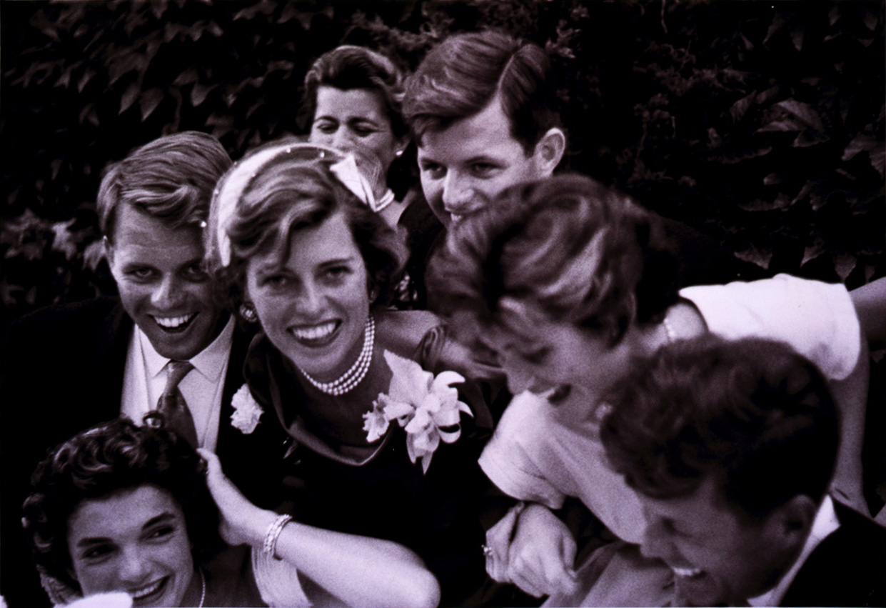 Kennedy-Bouvier wedding, close-up portrait of Kennedy family with couple.